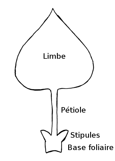 Translation File:Blatt Gliederung.png